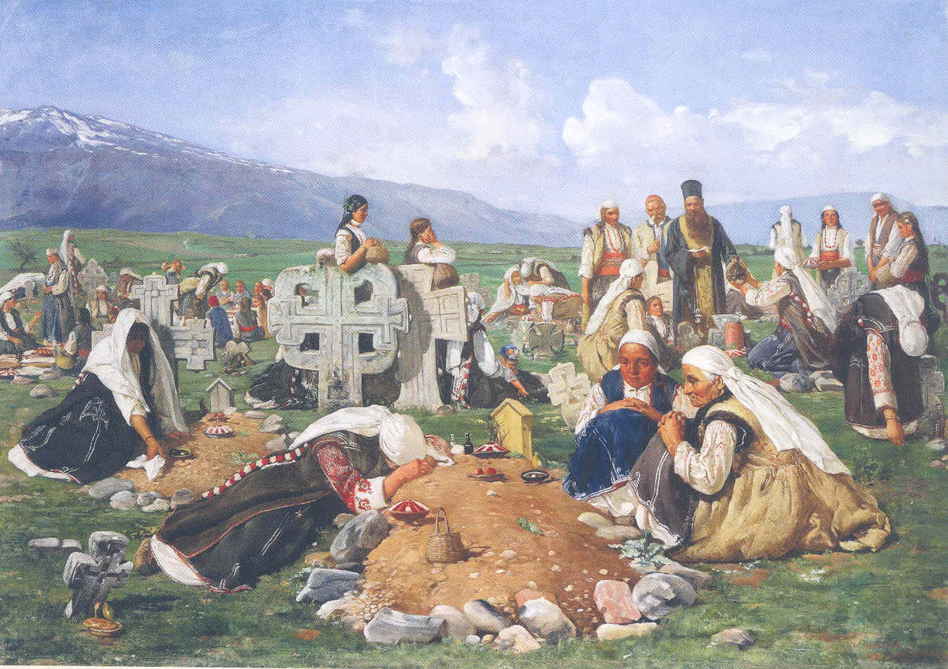 A snapshot of Ivan Mrkvička 1890 painting "Zaduszki"